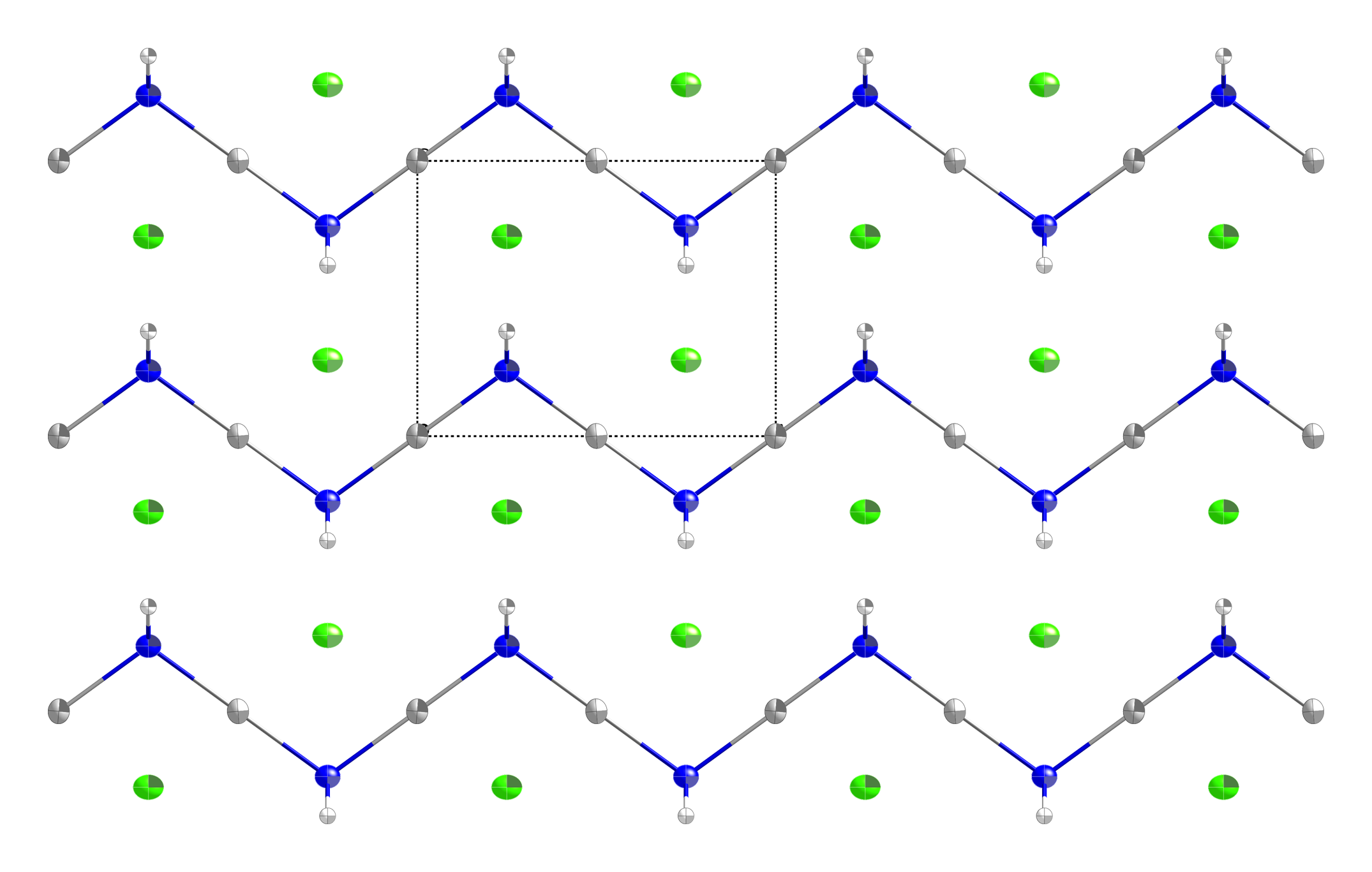 Thermal ellipsoid model of the unit cell and part of the crystal structure of mercuric amidochloride, [catena-Hg(NH2)]Cl. The thermal ellipsoids are drawn at the 50% probability level, except the hydrogen atoms, whose ellipsoids are quite large so I have replaced them with small spheres for clarity. Colour code: Mercury, Hg: grey Hydrogen, H: white Nitrogen, N: blue Chlorine, Cl: green Crystal structure from Z. anorg. allg. Chem. (2000) 626, 2143–2145. Model constructed and image generated in CrystalMaker 8.2.